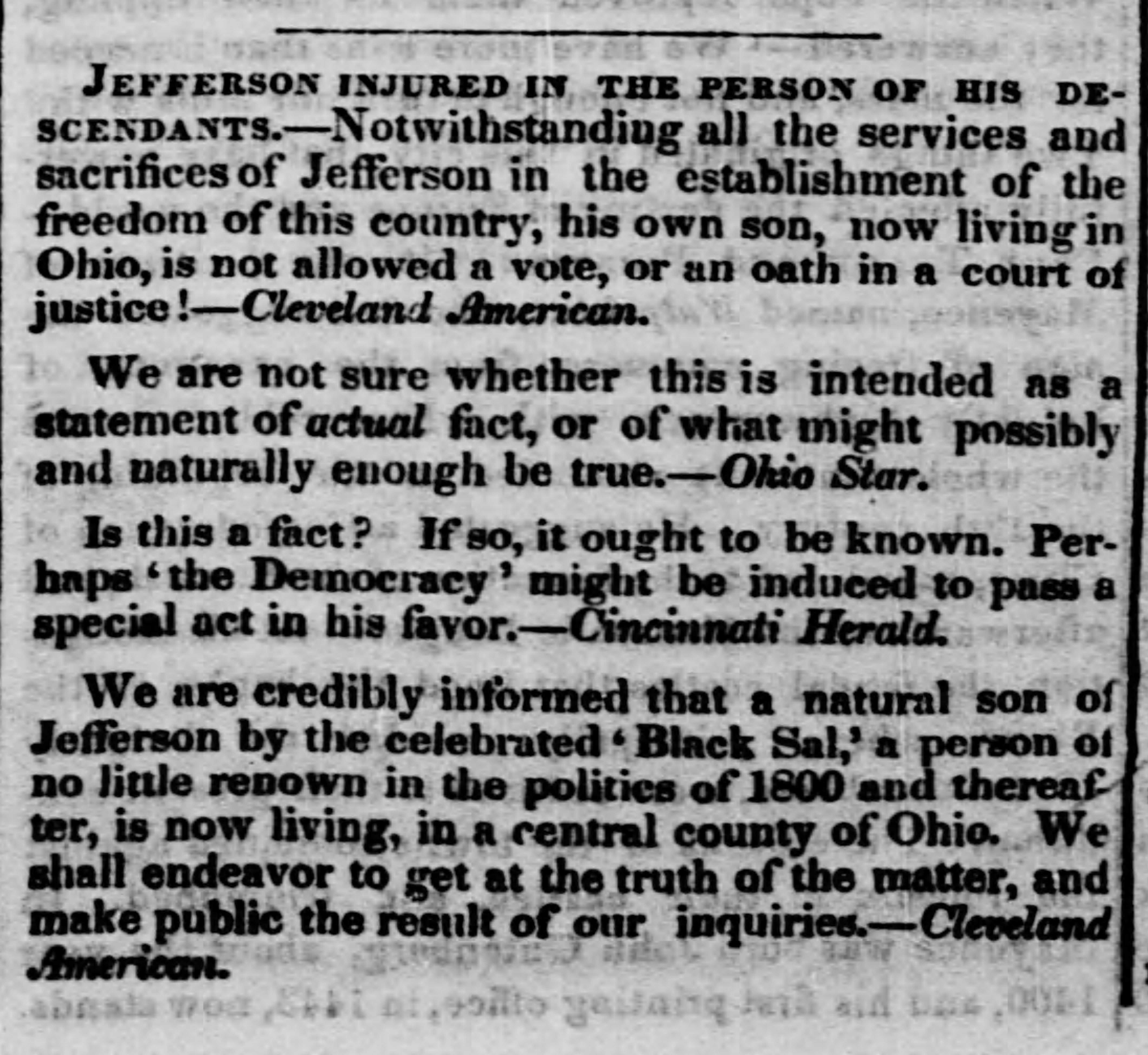 An article on page 2 of an 1845 edition of The Liberator which mentions one of Jefferson's sons (either Eston Hemings Jefferson or Madison Hemings) being denied the right to vote in Ohio. Originally in the Cleveland American